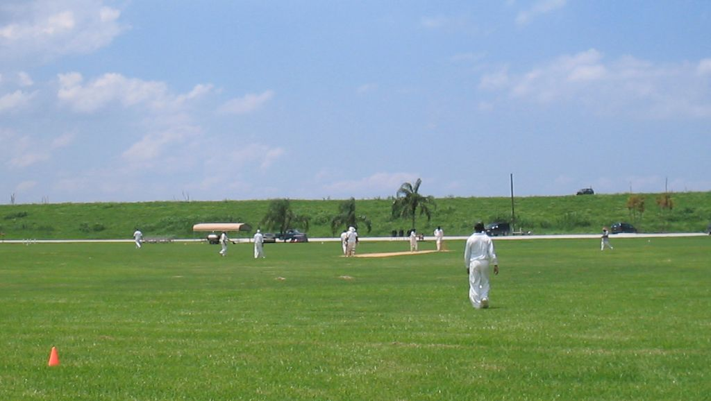 Participants enjoy a game of cricket at John Stretch Park in Lake Harbor, FL Photographed by Daniel Holth, 19 June 2005.